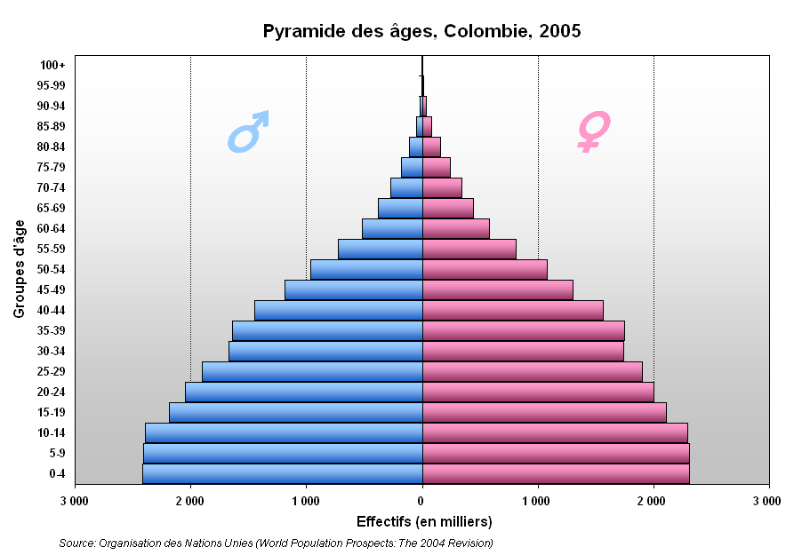 Colombia Population pyramid, 2005